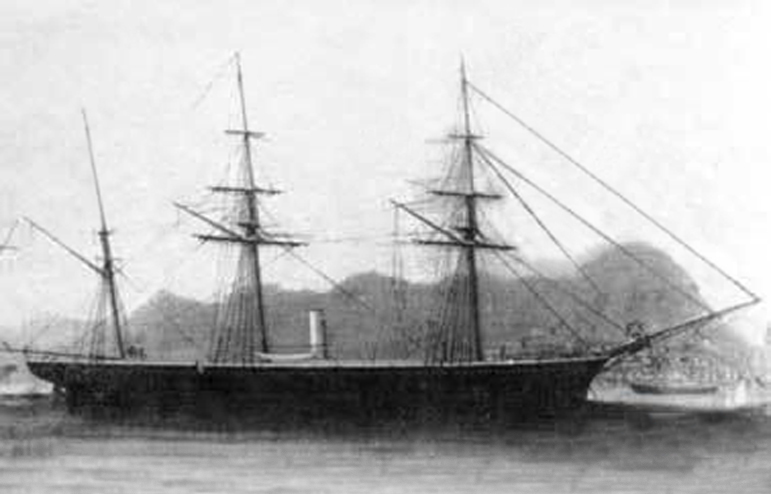 Clipper Gaydamak